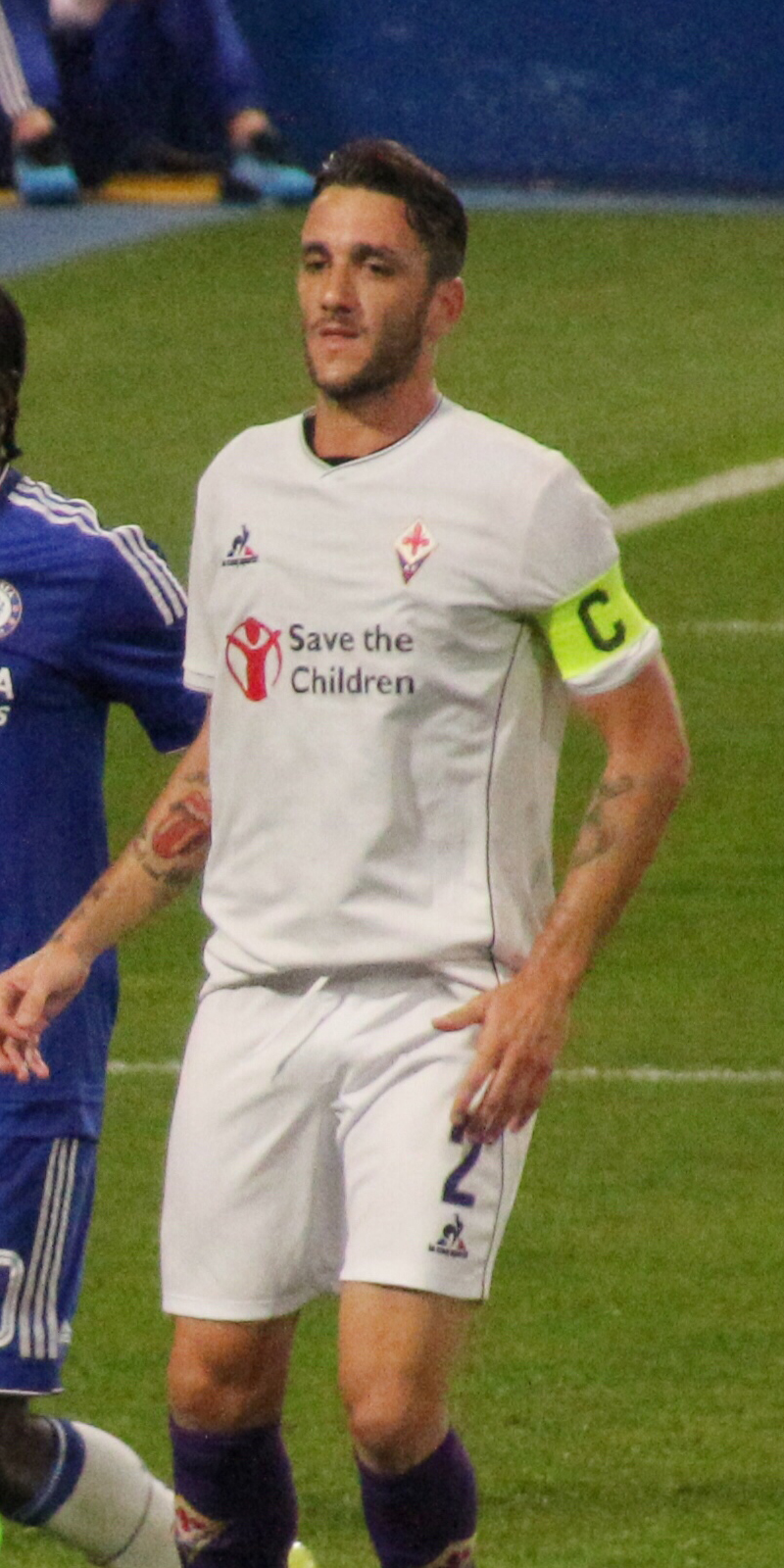 Gonzalo Javier Rodriguez is an Argentine professional footballer who plays for Italian club ACF Fiorentina as a central defender.